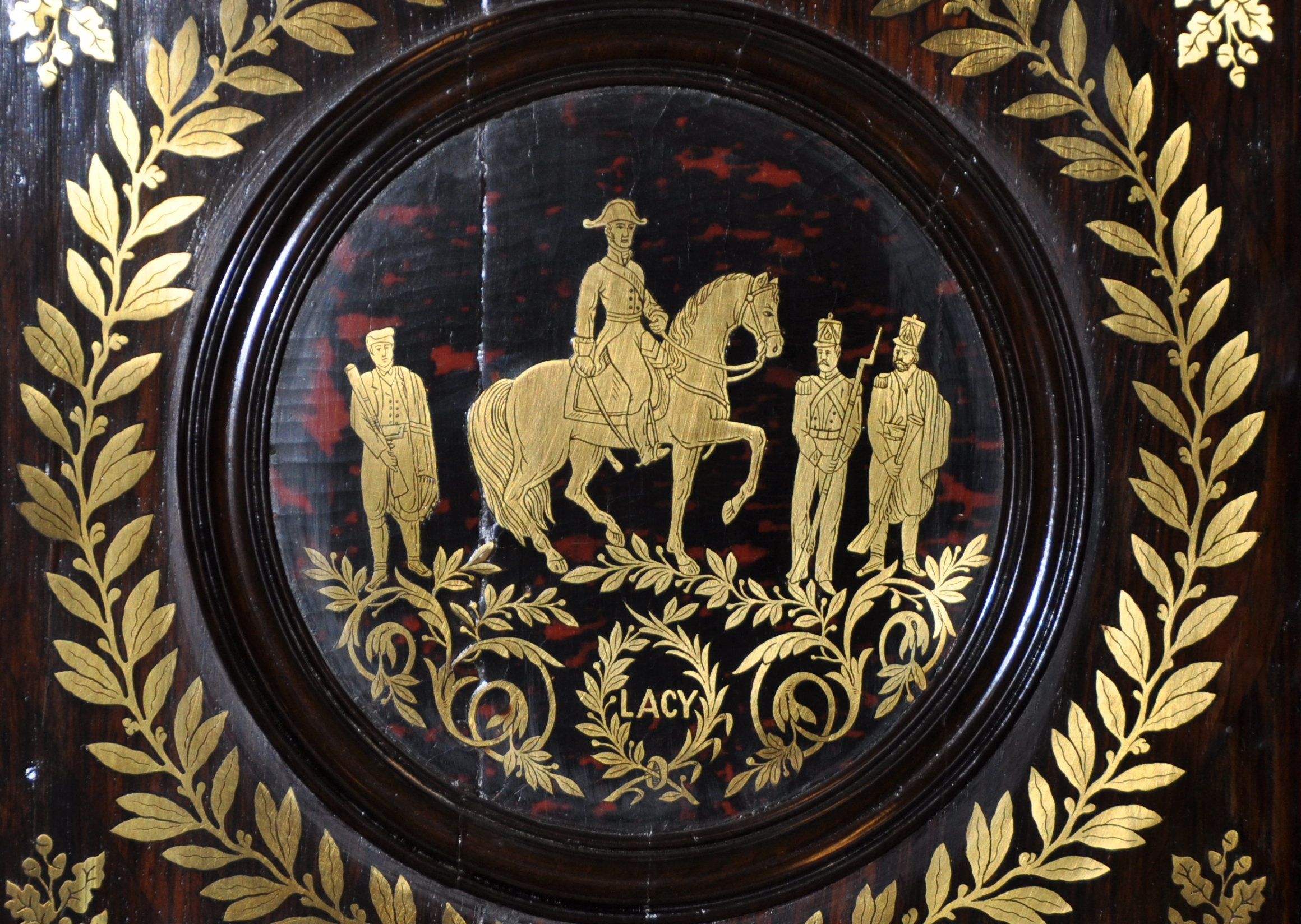 Luis Roberto de Lacy Detail of a furniture piece decorated with scenes of the Peninsular war (1866) Museu d'Història de Barcelona MUHBA